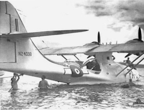 A Royal New Zealand Air Force Boeing PB2B-1 Catalina (NZ4038) from No. 6 Squadron at Bougainville, in 1945. The PB2B-1 NZ4038 was built for the U.S. Navy with the BuNo 73048. It aqrrived at Fiji on 25 June 1944, 6 Sqn. code "PA-J". After the war, it was loaned to TEAL in 1948 to survey the "Coral Route" (registration ZK-AMP). It was returned to the RNZAF in 1951 and declared surplus to requirements, and was sold for scrap and broken up in May 1952.